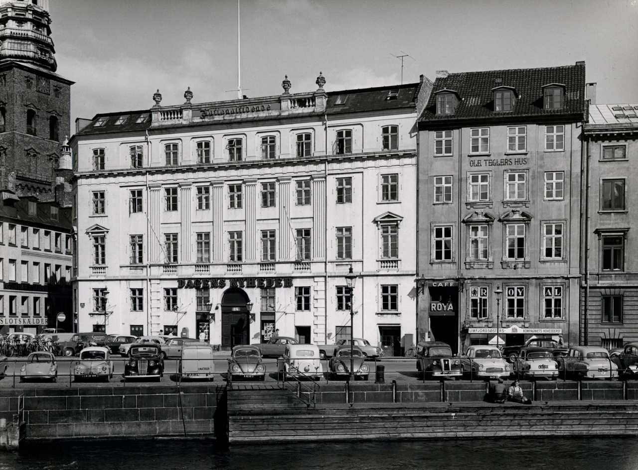 The former Hotel Royal building at Ved Stranden in Copenhagen, Denmark